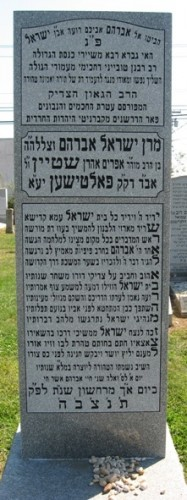 the grave of the rabbe